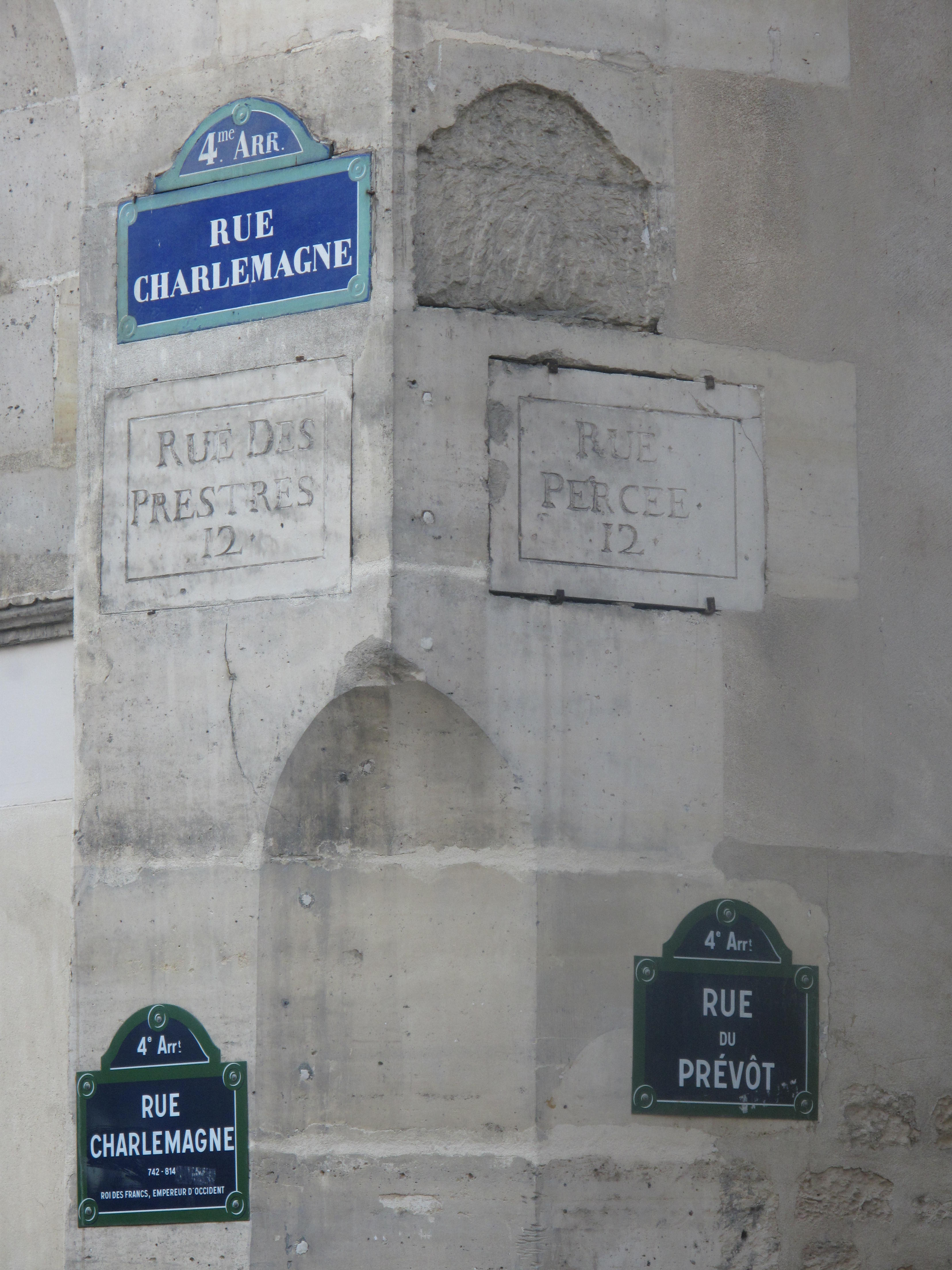 Corner of the rue Charlemagne (formerly rue des Prêtres) and the rue du Prévôt (formerly rue Percée), Paris 4th arr.